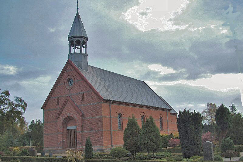 Jerup Kirke beliggende ca. 12 km nordvest for Frederikshavn i Jerup by. (Church of Jerup, danish church situated app. 12 km northwest of Frederikshavn in the northern part of Jutland). Photo taken by Jørgen Larsen, 051022